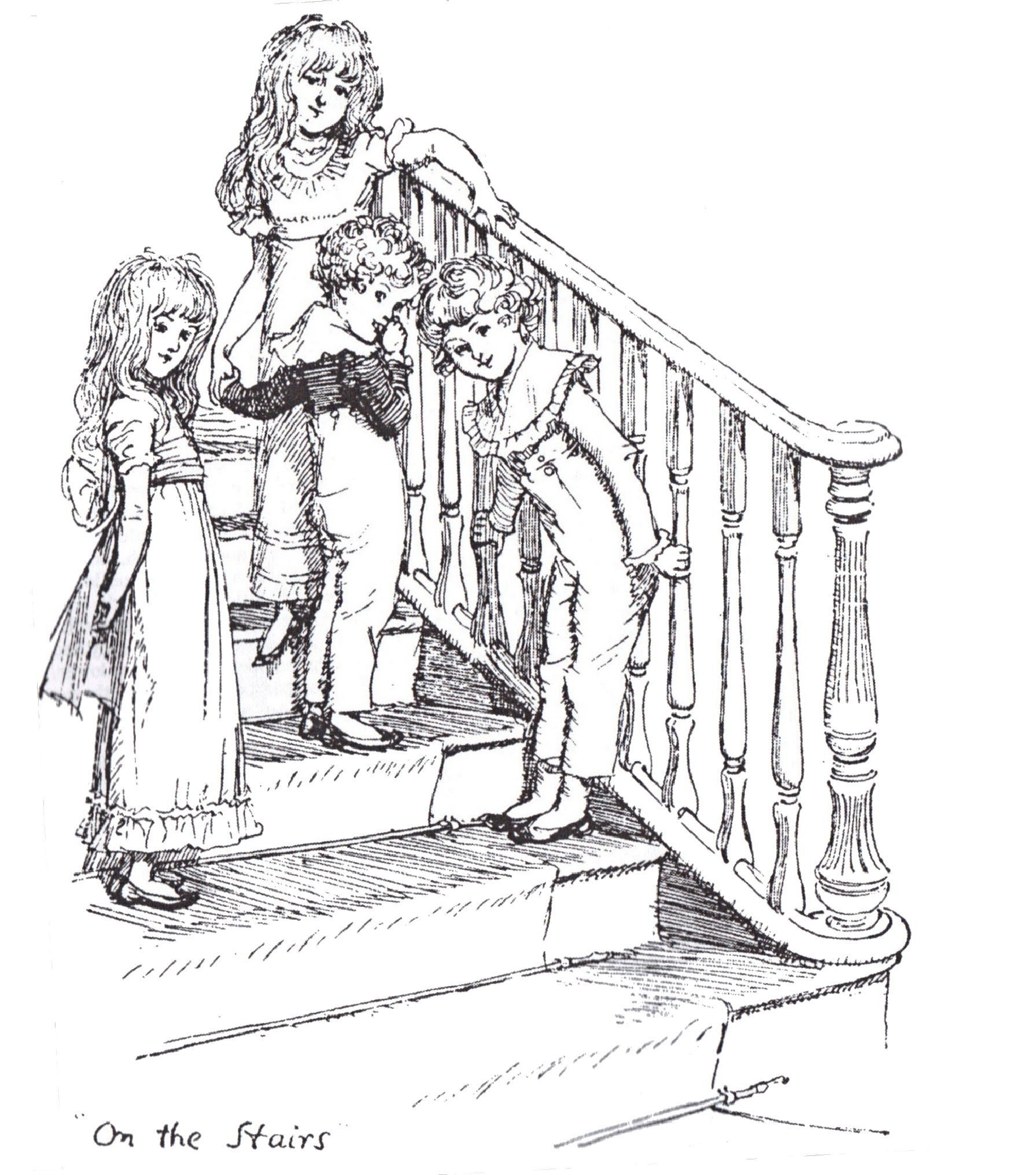 Illustration for Pride and Prejudice, ch. 27: the little Gardiners on the stairs